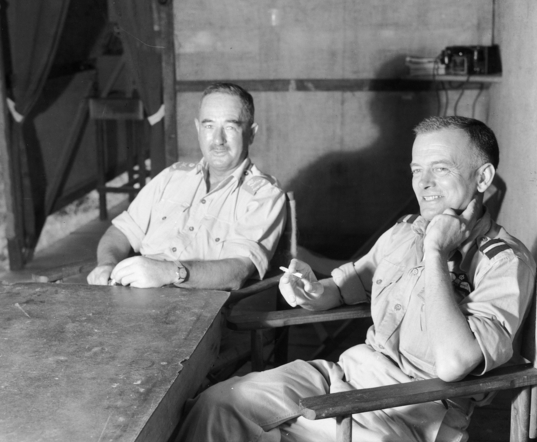 AWM Caption: LABUAN, NORTH BORNEO. C. 1945-08. AIR COMMODORE F. R. W. SCHERGER DSO AFC (RIGHT), CONFERS WITH LIEUTENANT GENERAL SIR LESLIE MORSHEAD AT 1ST TACTICAL AIR FORCE, RAAF.